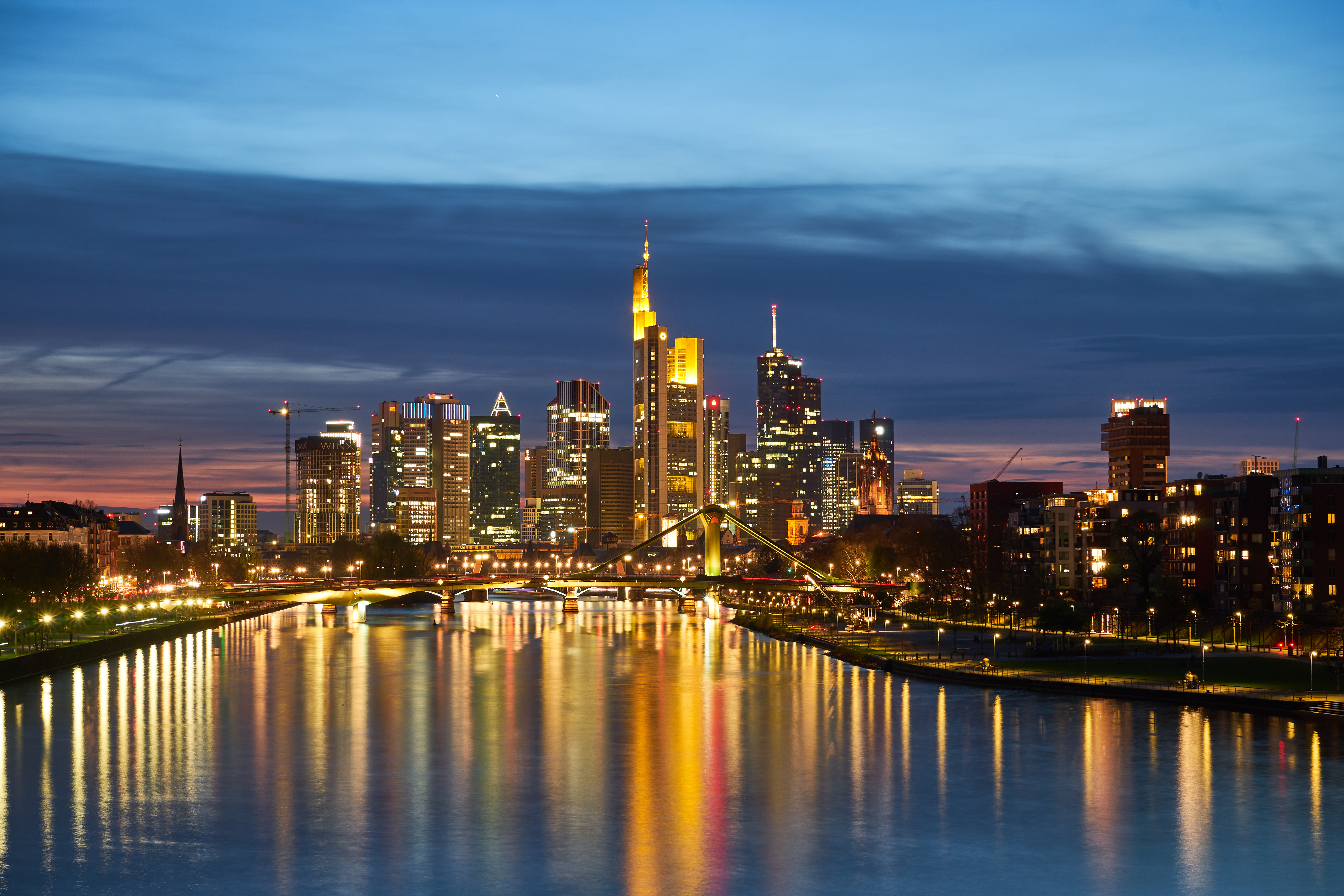 Deutschherrnbrücke, Frankfurt am Main, Germany